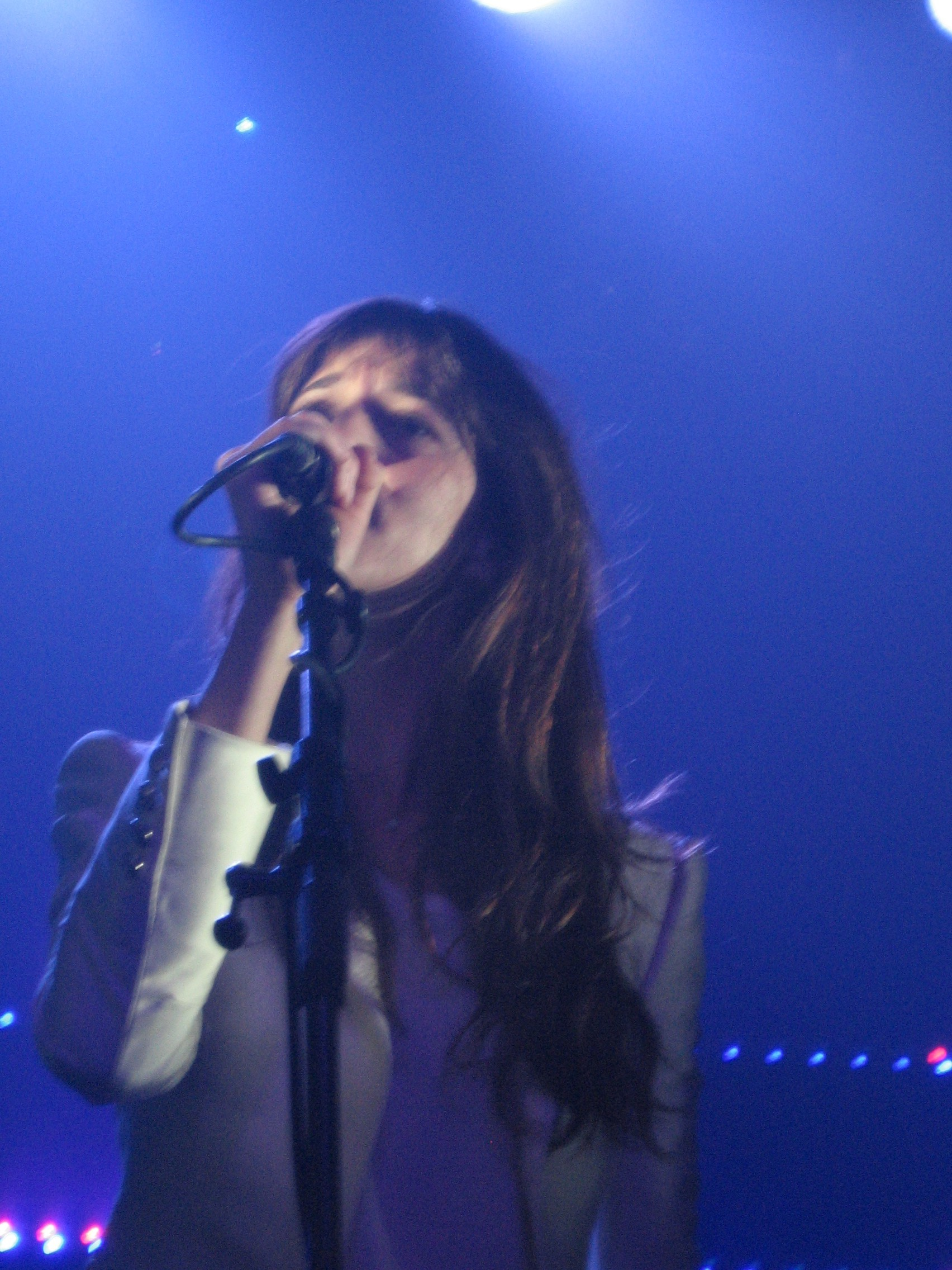 Charlotte Gainsbourg during the Air concert in Melkweg, Amsterdam (March 27th, 2007)